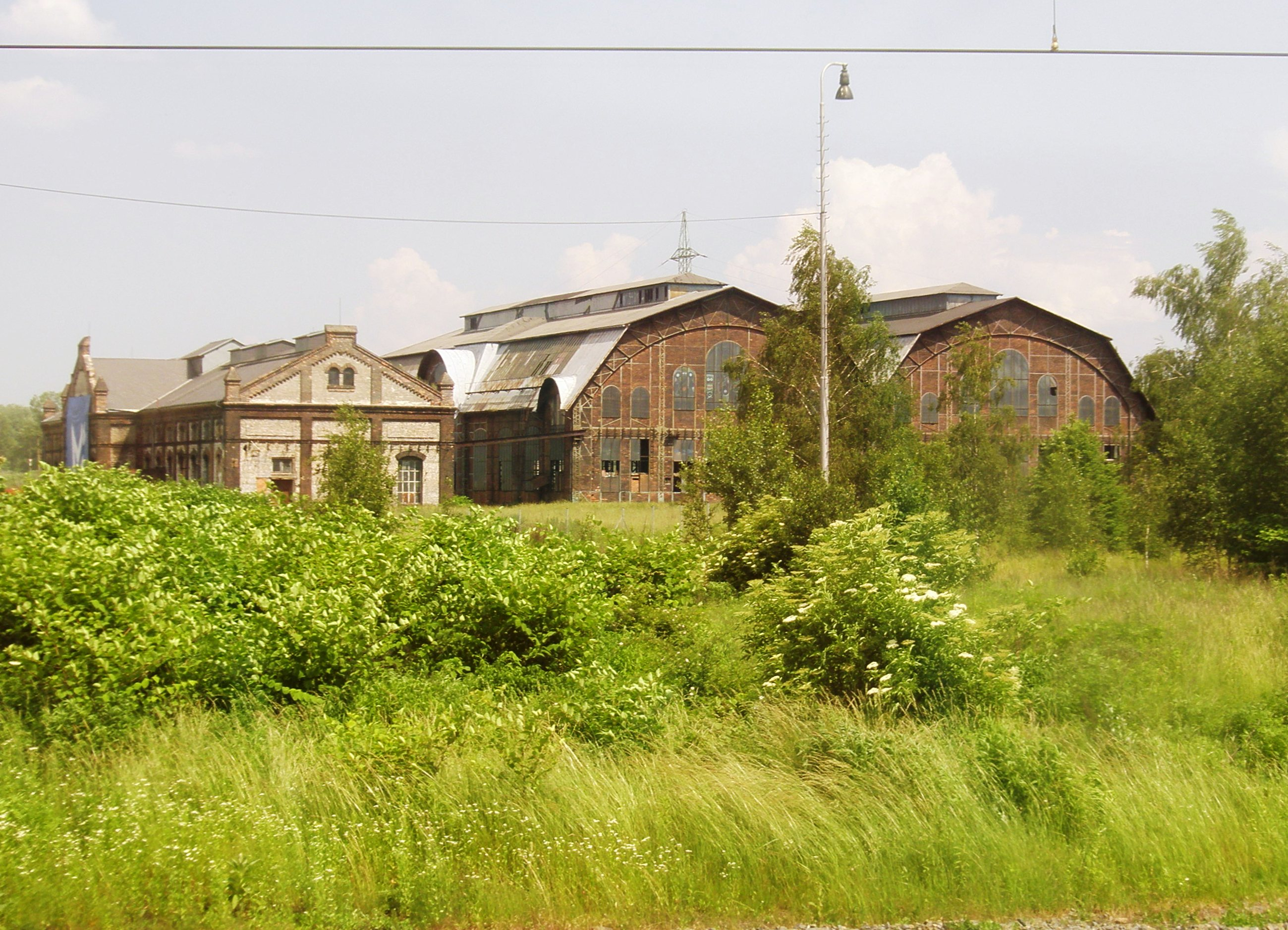 Ostrava, Karolína hall